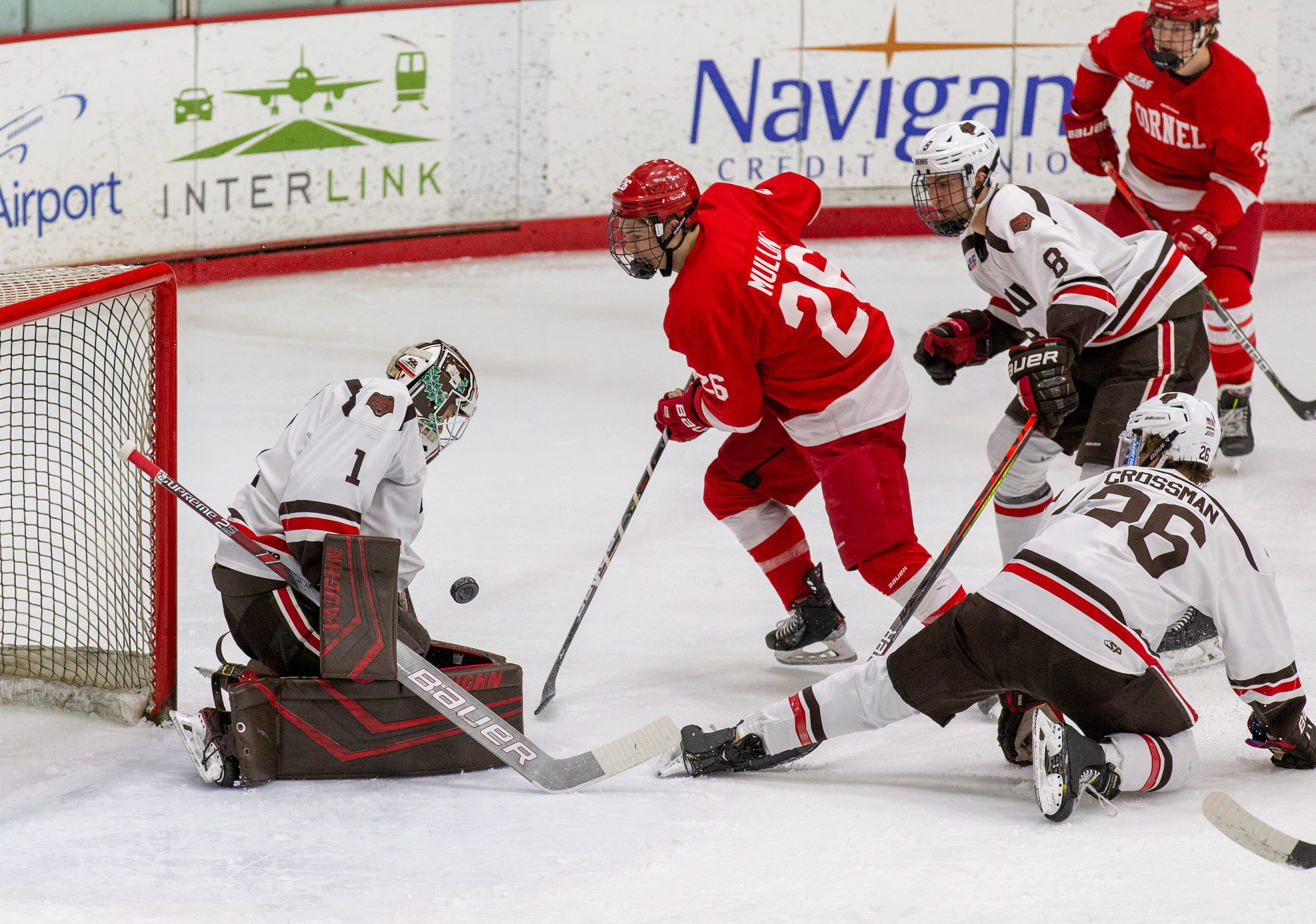 Cornell vs Brown ice hockey, Meehan Auditorium, Feb 22, 2020. Cornell won, 3-0.